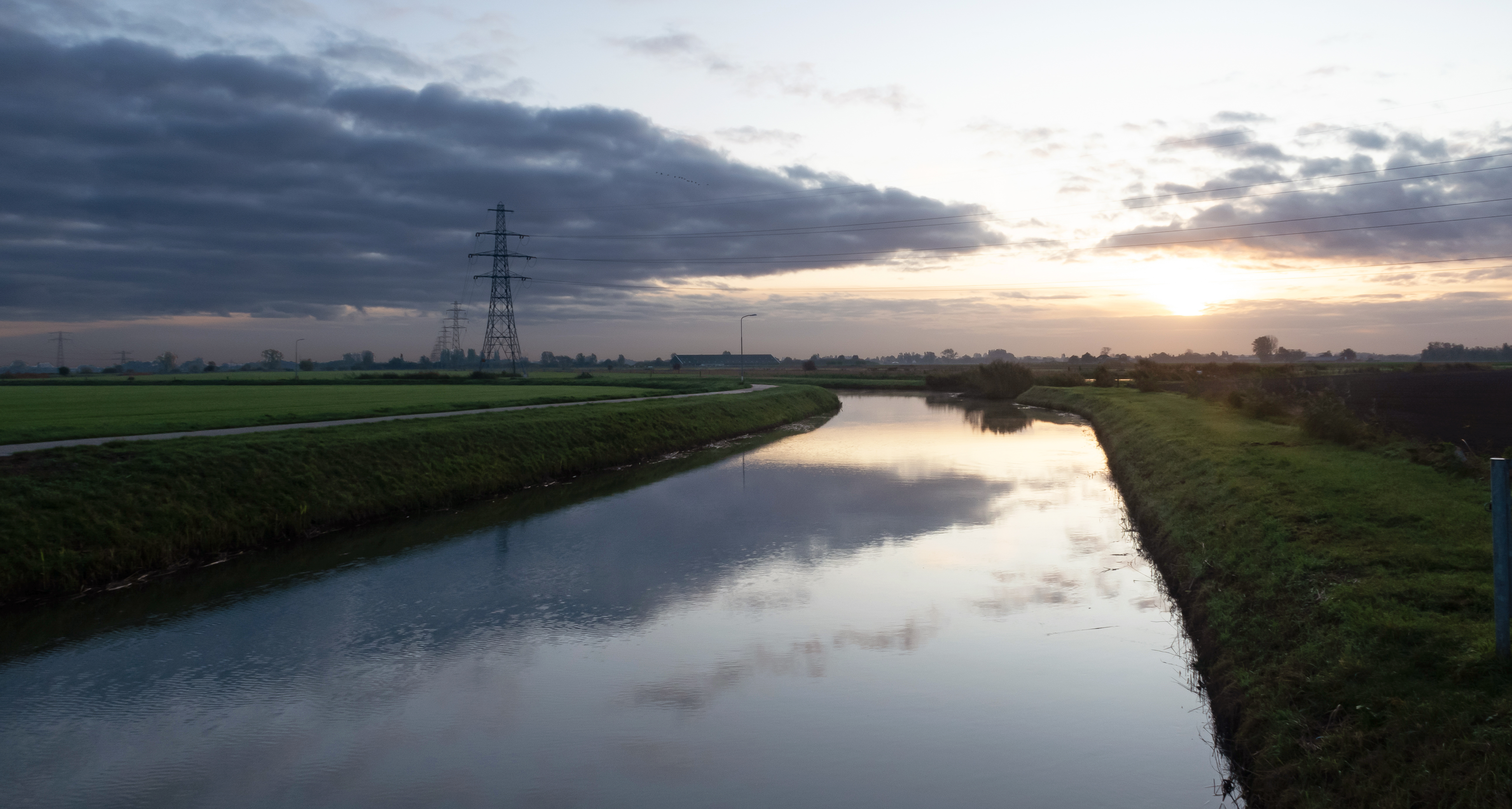 Haalderen, river the de Linge to the south east from the Goudsbloempad Noord